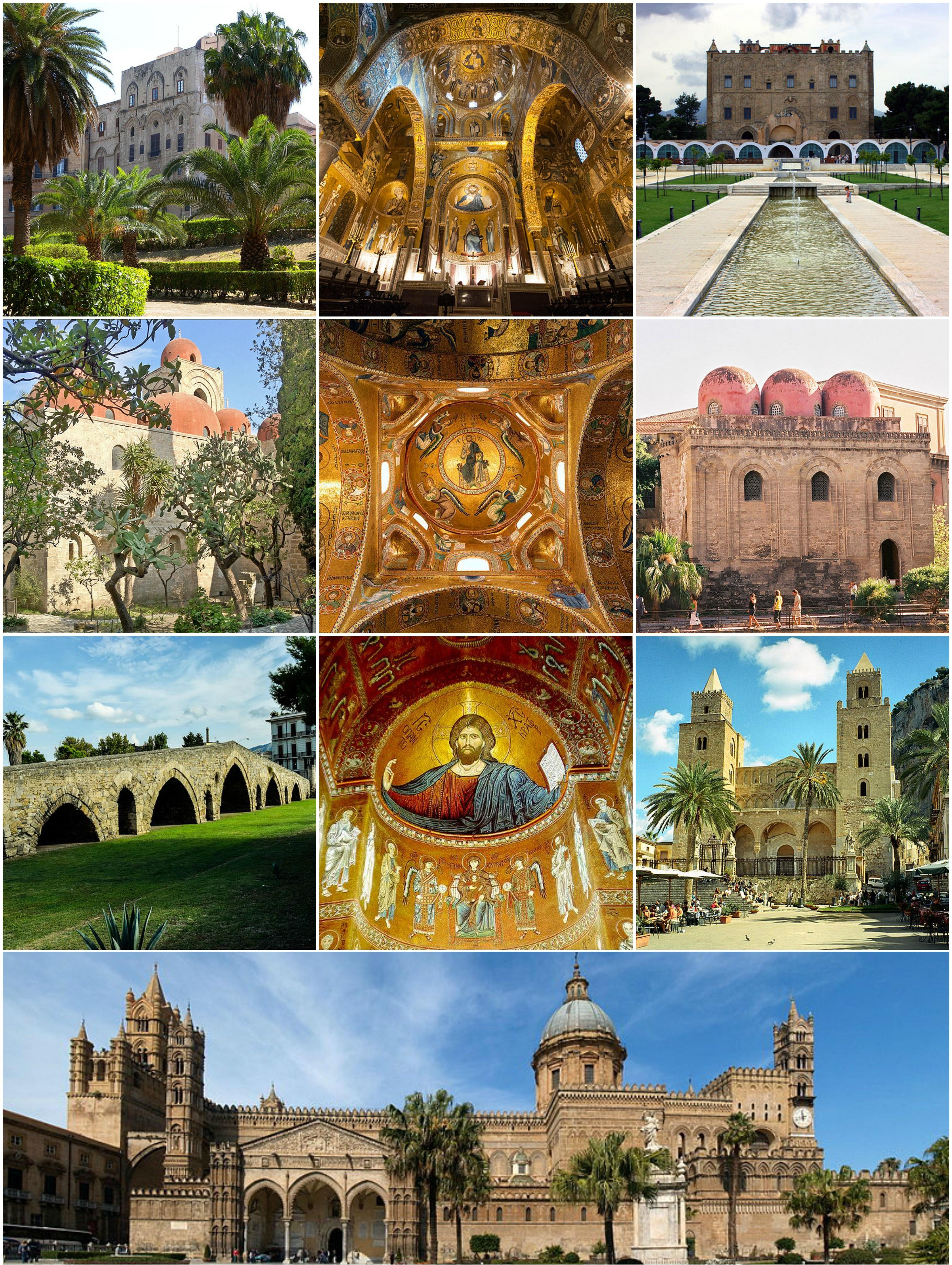 Components of the world heritage site Arab-Norman Palermo and the Cathedral Churches of Cefalù and Monreale